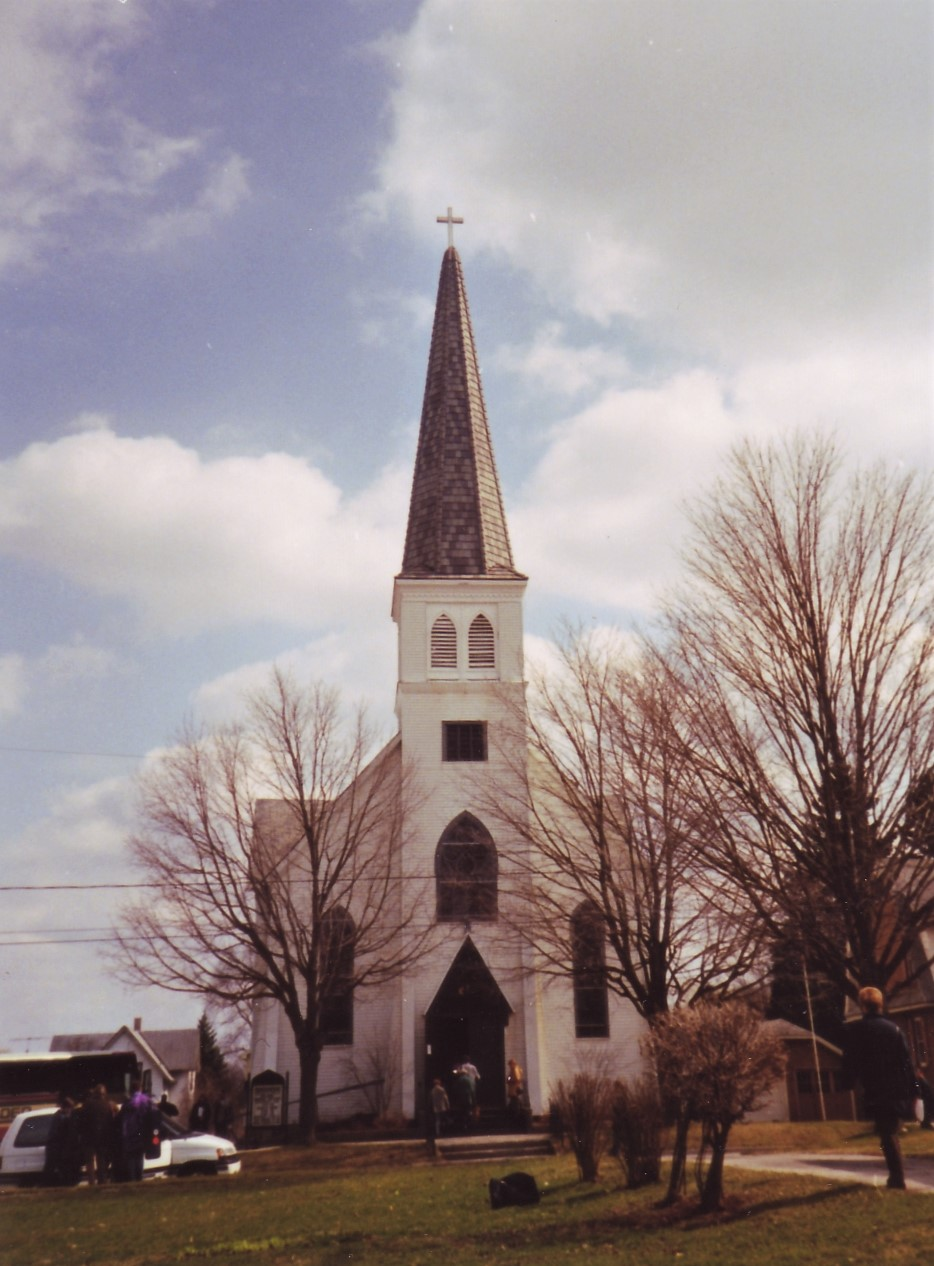 Belvidere, Il, Word of Life Ministries